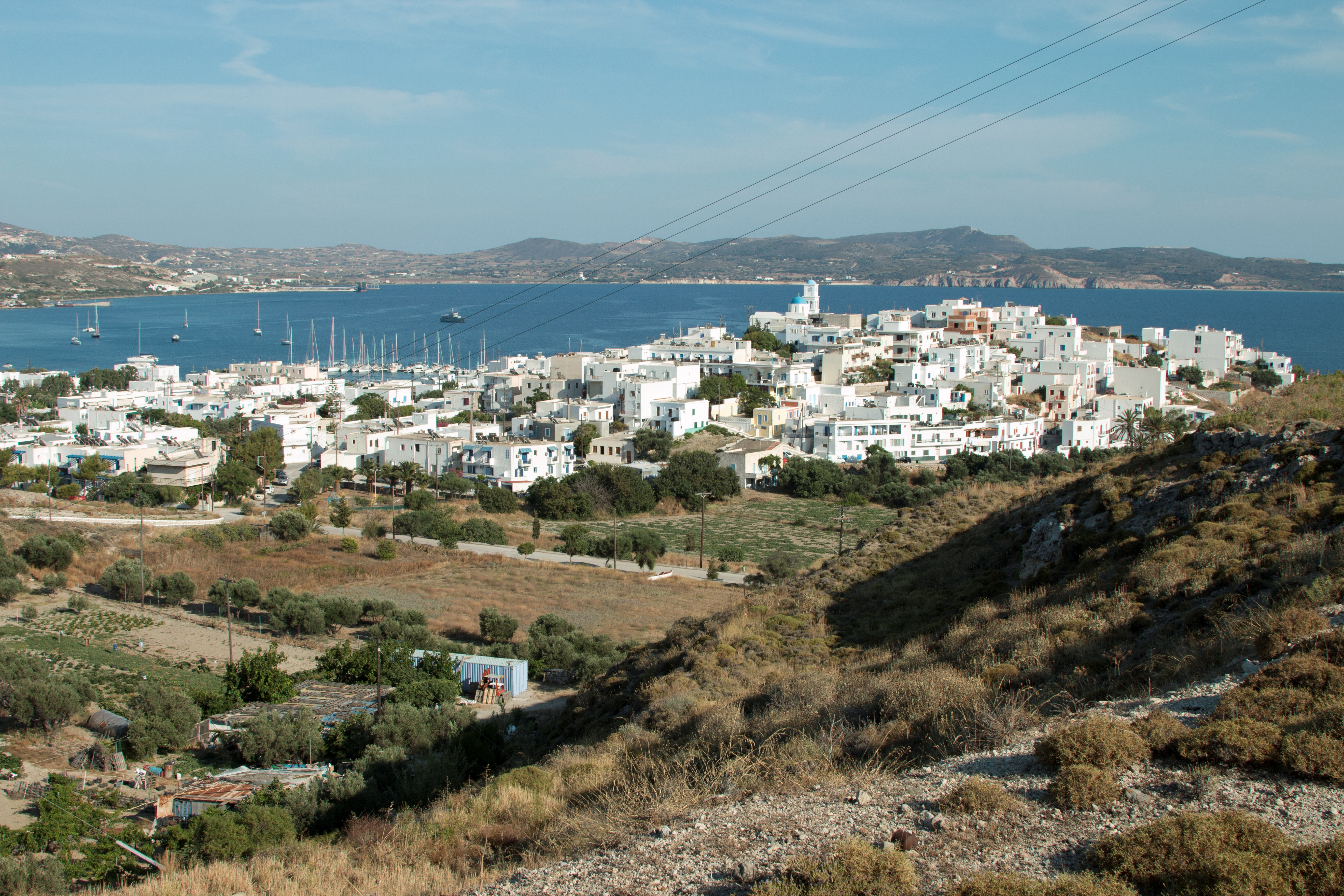 Adamas on Milos. (View from way to the Nychia hill.)